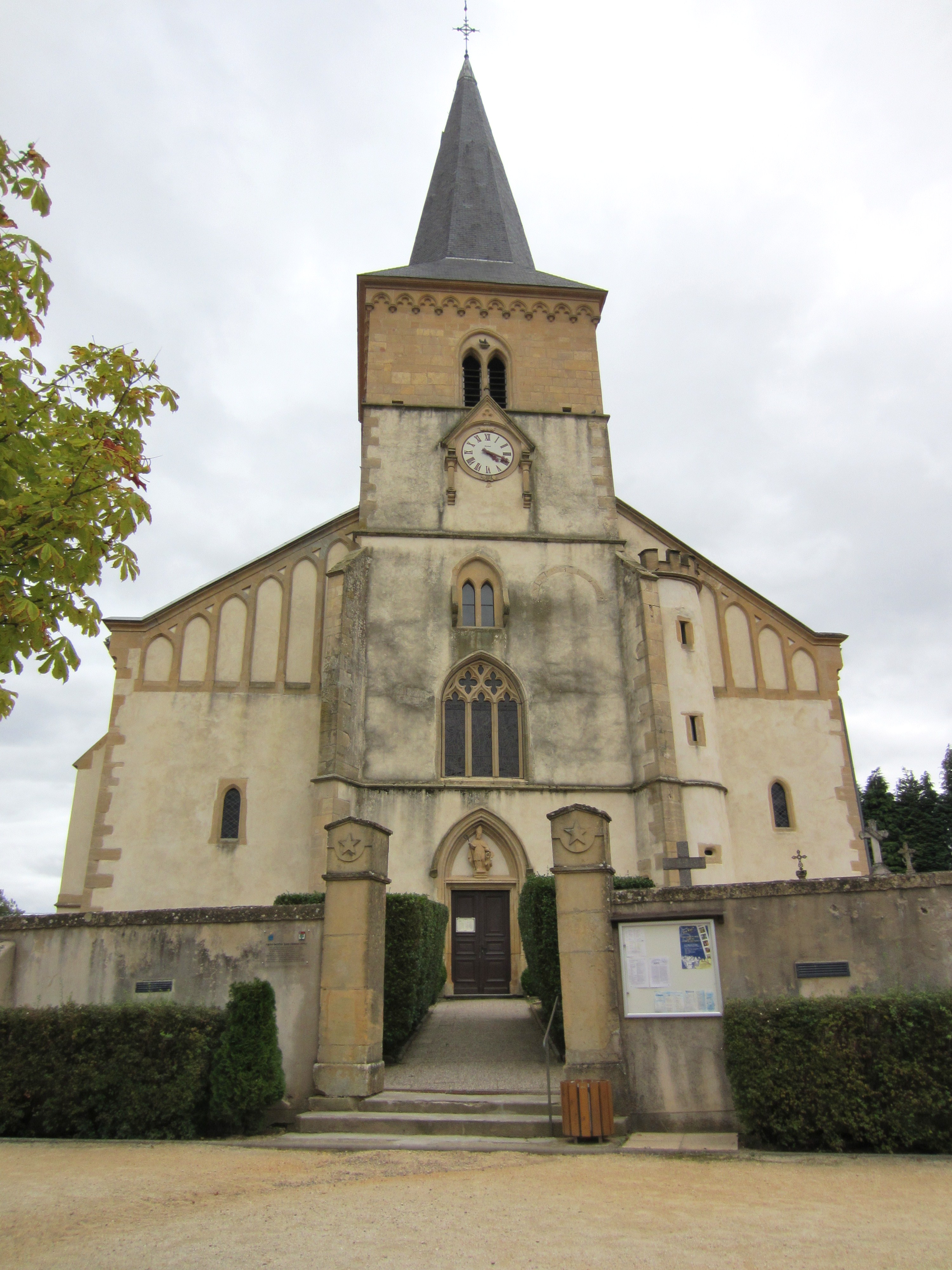 Description eglise saint clement Lorry Metz Date7 September 2011Sourcemon appareil photoAuthorAimelaimePermission (Reusing this file) eglise saint clement Lorry Metz